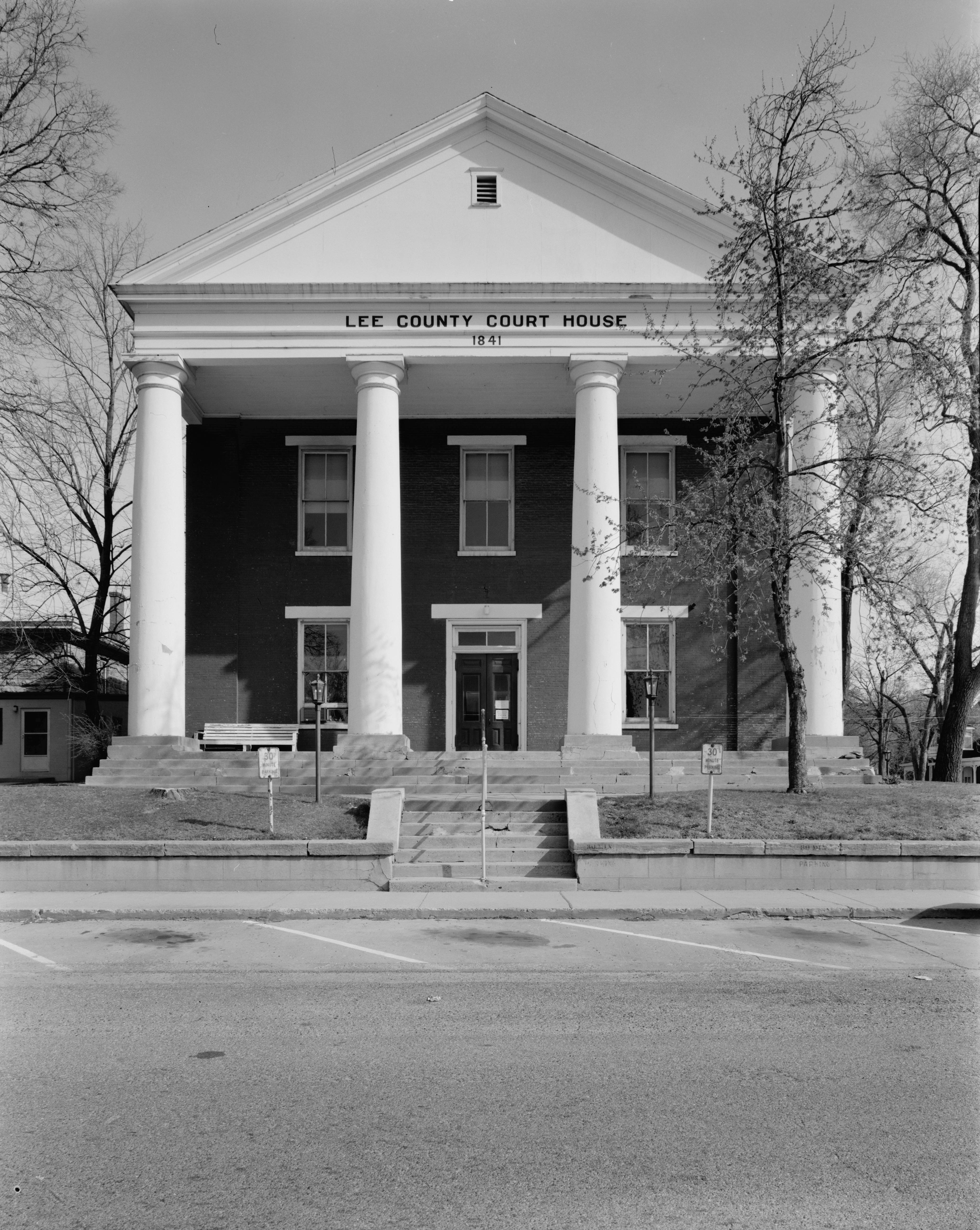 Front of the Lee County Courthouse, located at 701 Avenue F in Fort Madison, Iowa, United States. Built in 1841, it is listed on the National Register of Historic Places.